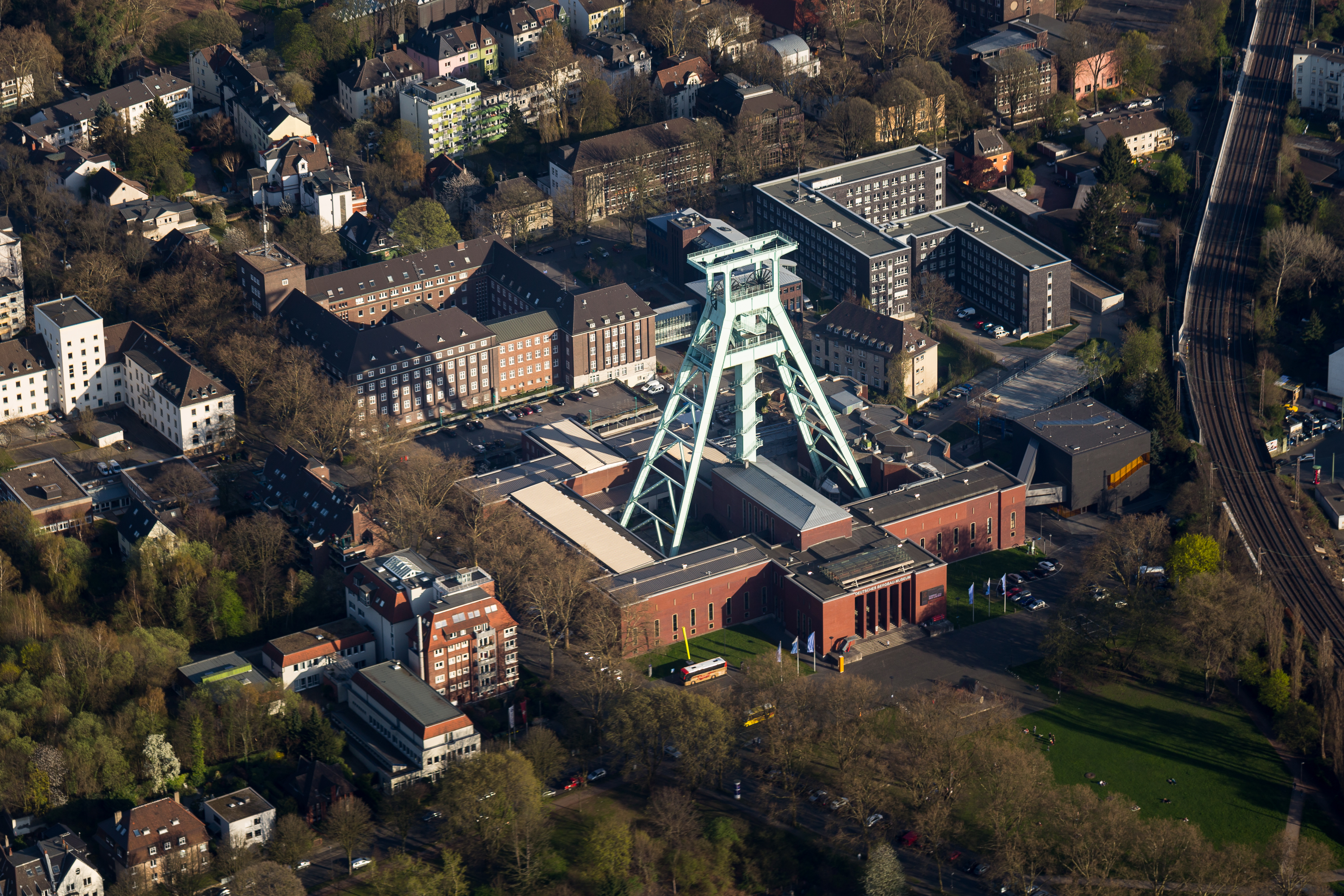 Aerial image of the German museum for mining located in Bochum, Germany.